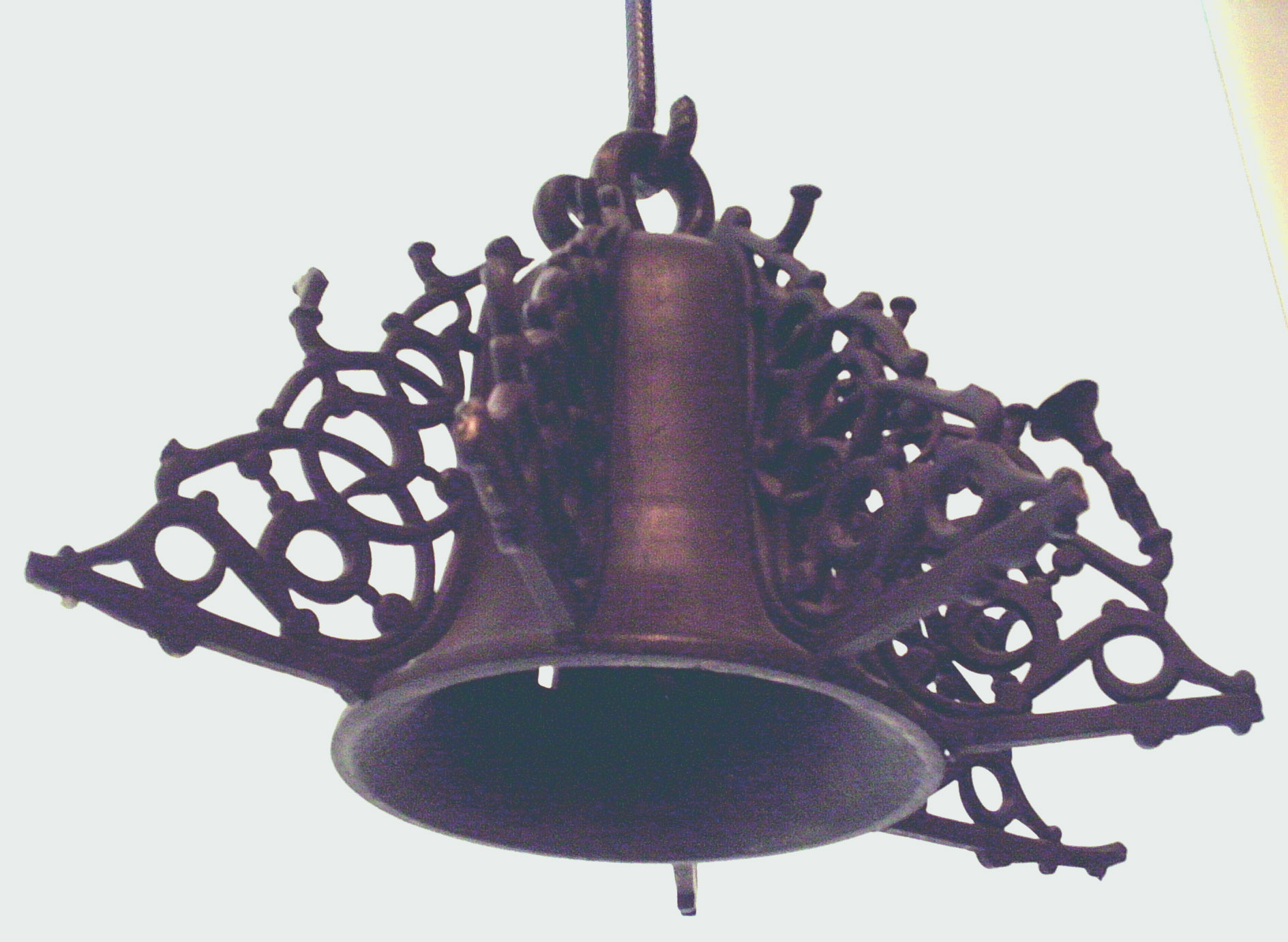 Bell reused and transformed into a lamp.